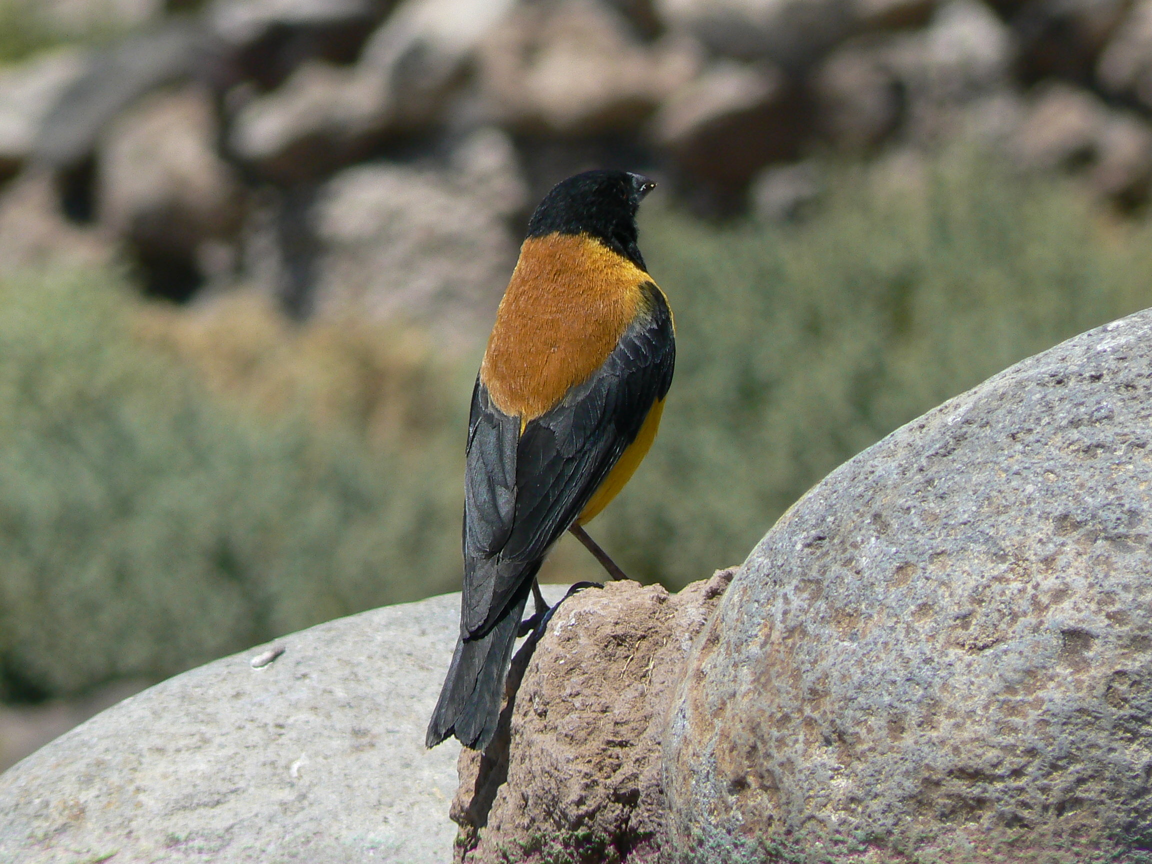 A Black-hooded Sierra-finch in Bolivia.